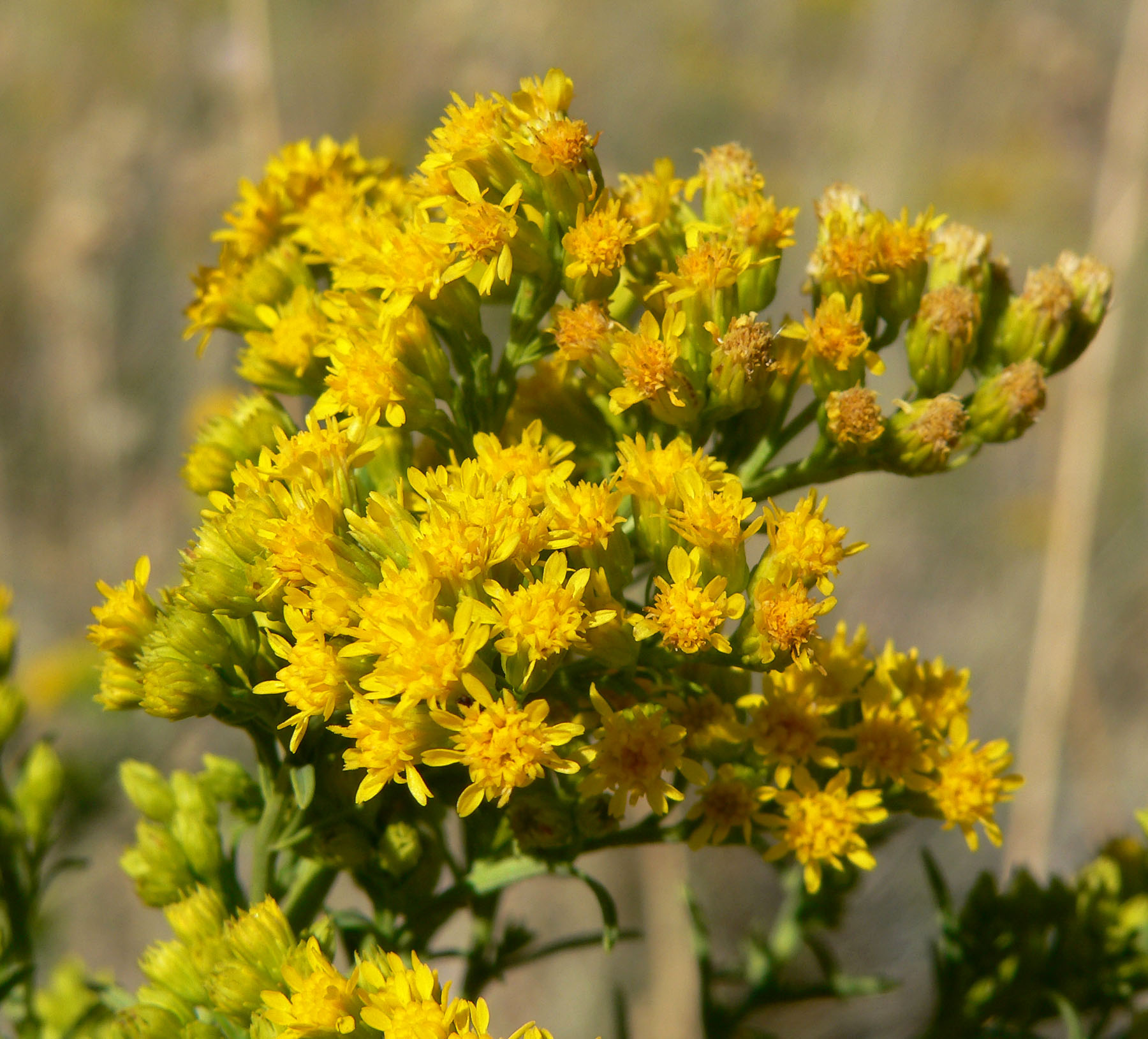 Solidago spectabilis at Red Spring, Calico Basin, Red Rock Canyon, southern Nevada